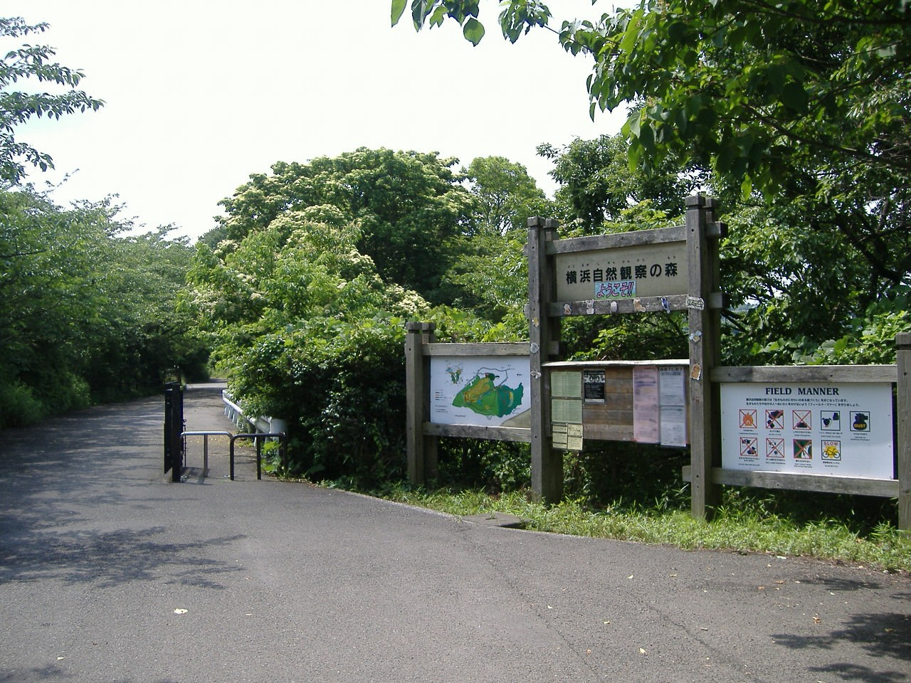 Yokohama_Nature_Sanctuary (Yokohama, Japan)